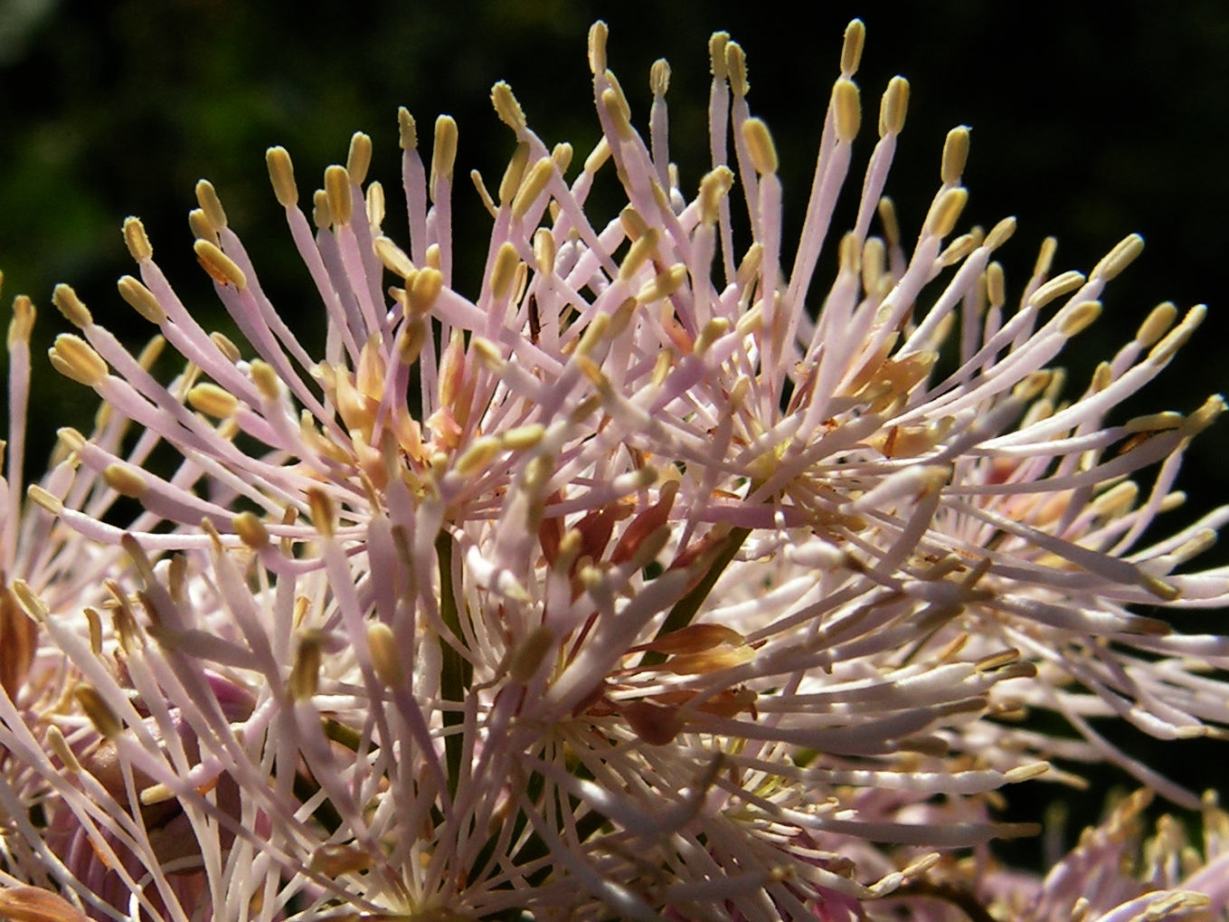 Flowers of Thalictrum aquilegiifolium. Moscow region, Russia.